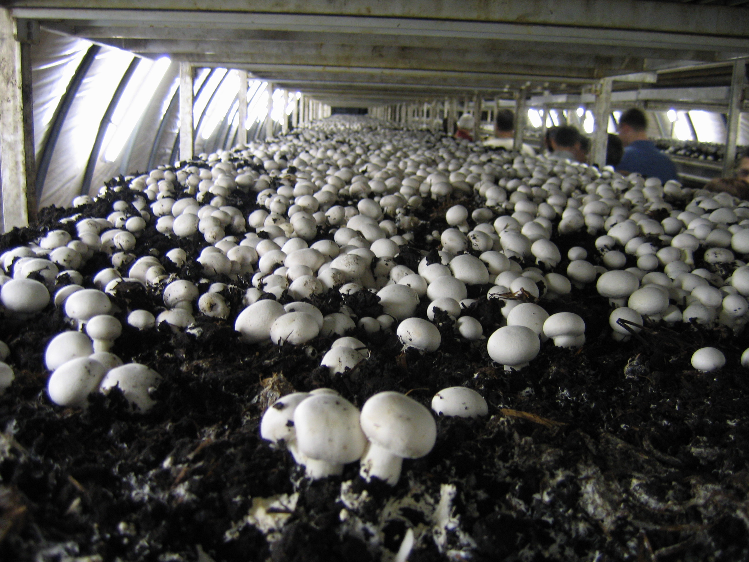 Mushroom farm outside of Eger, Hungary